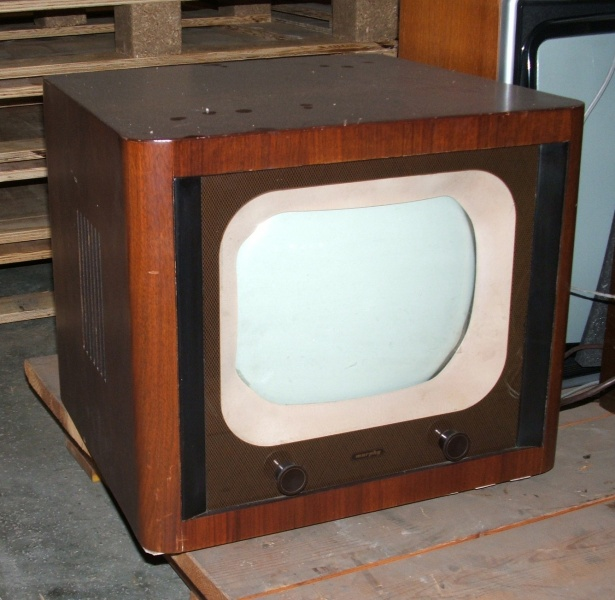 British Murphy black and white 405 line Television receiver 1951.